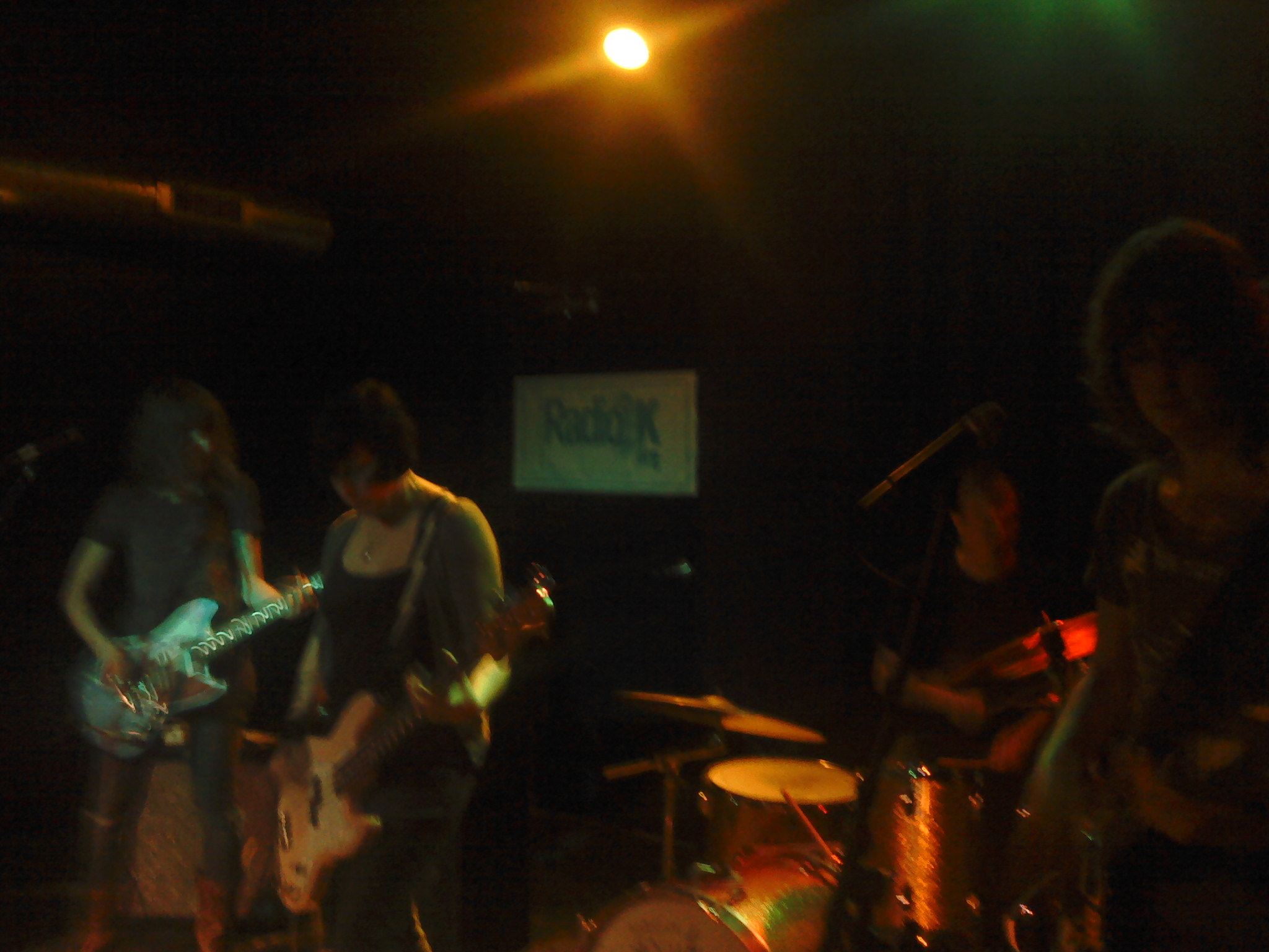 The Soviettes performing in concert in St. Paul, Minnesota at Eclipse Records.